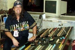 Cosmo Wilson, lighting engineer, also seen here